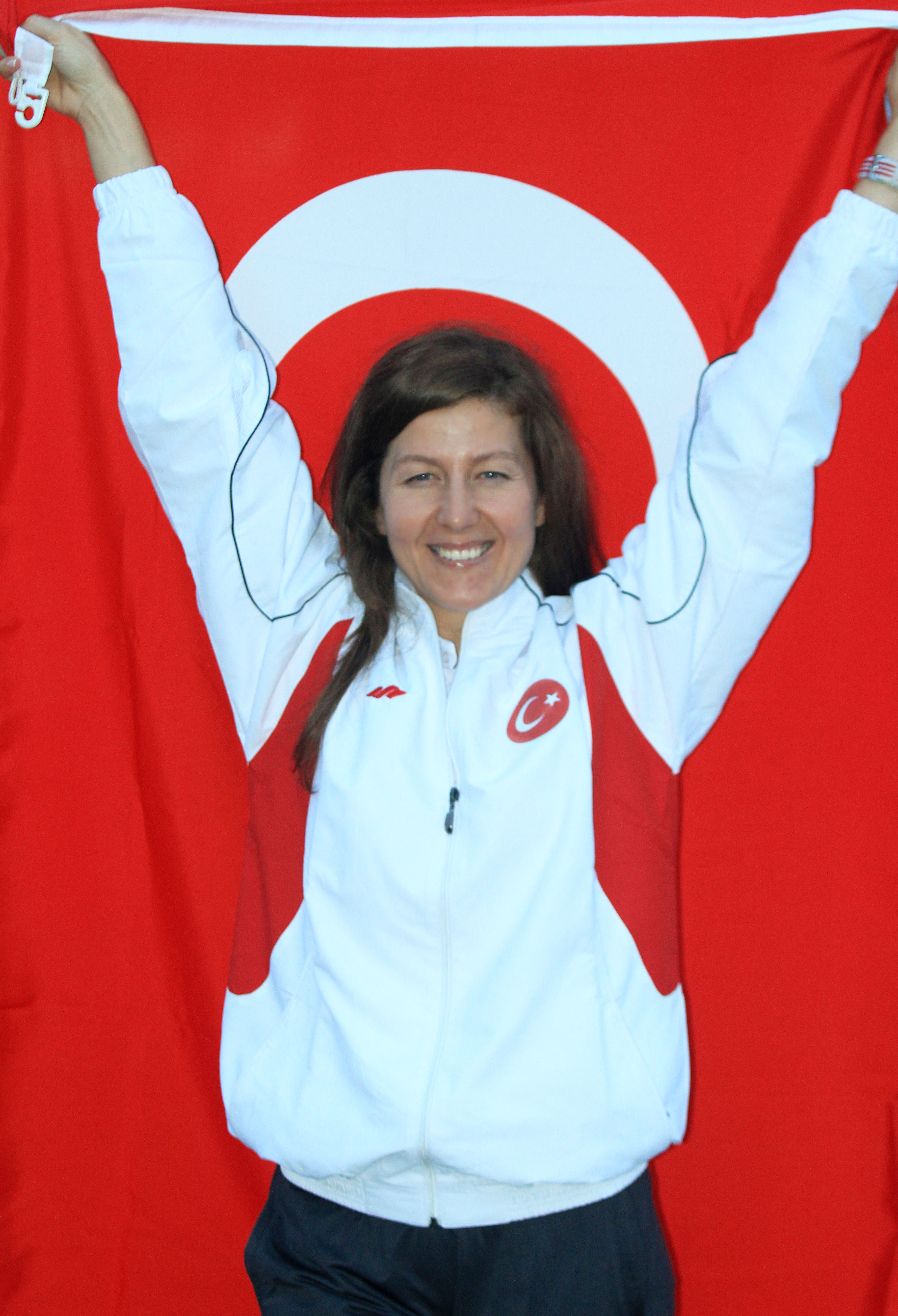 Turkish Free Diver Champion Mrs Birgul Erken.